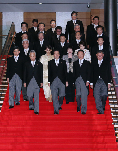 Shinzō Abe, Prime Minister, went to the Prime Minister's Official Residence for the photo with Sanae Yamamoto, Mitsuhide Iwaki, Fumio Kishida, Tarō Asō, Hiroshi Hase, Yasuhisa Shiozaki, Hiroshi Moriyama, Motoo Hayashi, Keiichi Ishii, Tamayo Ōtsuka, Gen Nakatani, Yoshihide Suga, Tsuyoshi Takagi, Tarō Kōno, Aiko Shimajiri, Akira Amari, Katsunobu Katō, Shigeru Ishiba, Toshiaki Endō, Ministers of State, Kōichi Hagiuda, Hiroshige Sekō, Kazuhiro Sugita, Deputy Chief Cabinet Secretaries, and Yūsuke Yokobatake, Director-General of the Cabinet Legislation Bureau, in Chiyoda Ward, Tōkyō Metropolis on October 7, 2015.